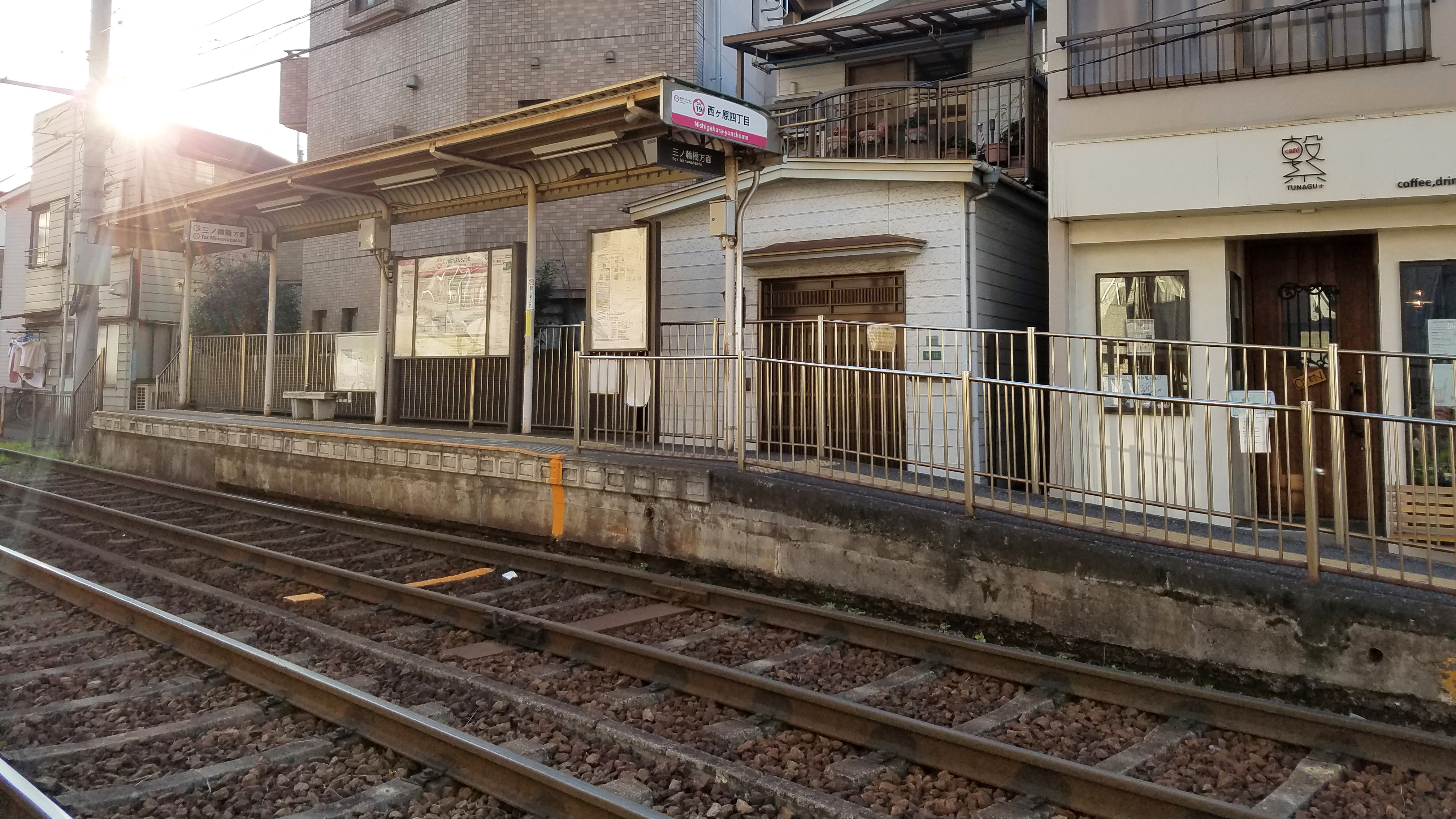 The Minowabashi-bound platform at Nishigahara-yonchōme Station on the Toden Arakawa Line(Tokyo Sakura Tram) in Kita city, Tokyo, Japan